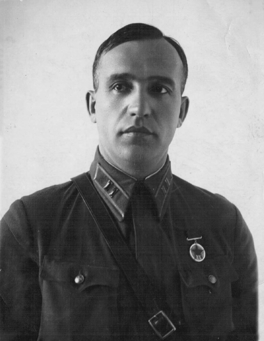 Kochetkov Pavel Ivanovich